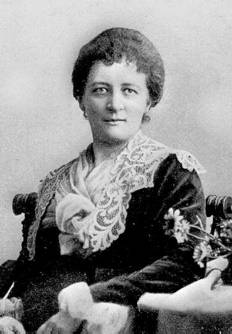 Bild von Lily Braun (1865 - 1916), Deutsche Buchautorin, Politikerin; Lily Braun (1865 - 1916), German author, politican